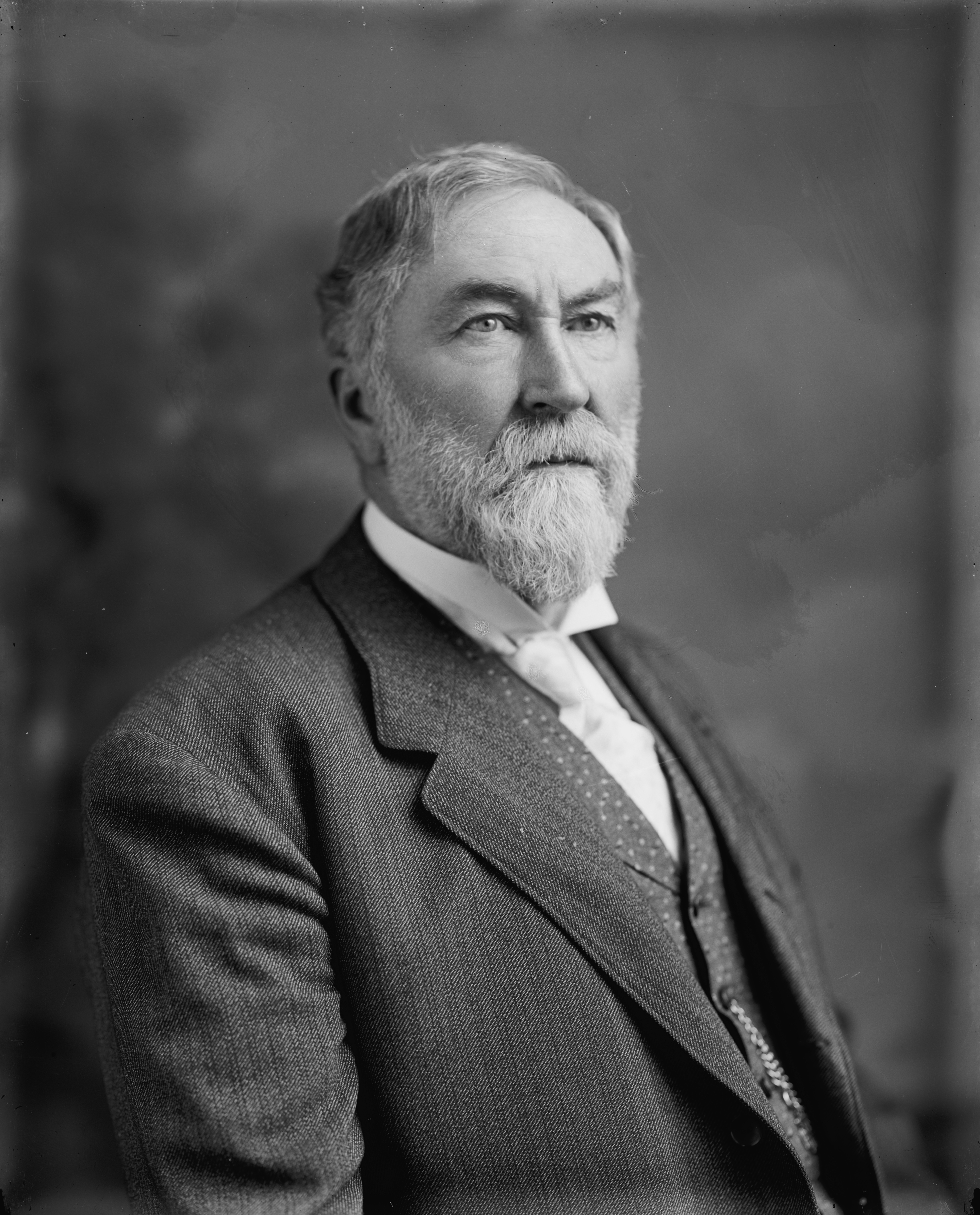 Title: SCOTT, NATHAN B. SENATOR Abstract/medium: 1 negative : glass ; 8 x 10 in. or smaller